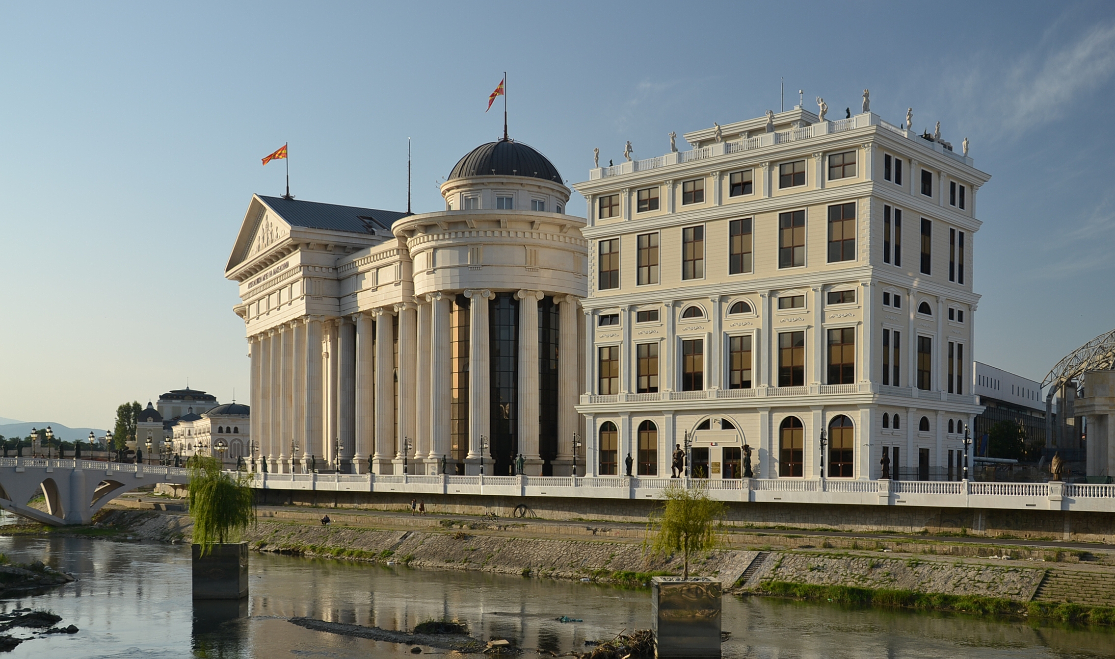 Skopje, Macedonia - Agency for Electronic Communications and Archeological Museum